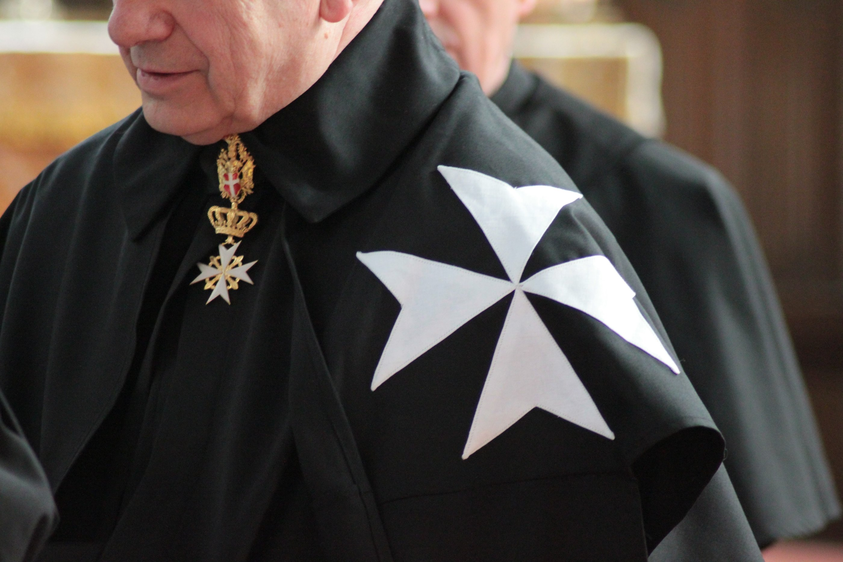 A newly-clothed knight of the Order